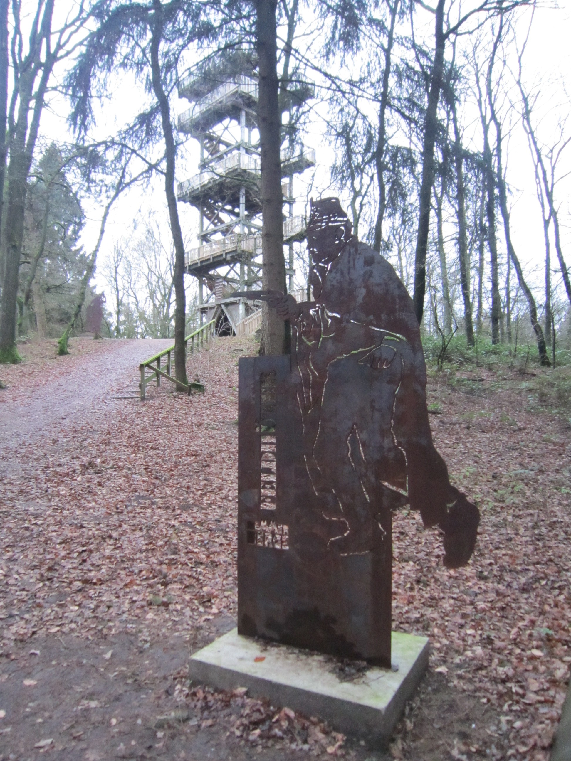 Mordkuhlenberg near Damme (Dümmer) with an iron sculpture showing a motive of the legend "The Mordkuhlenberg Rovers"; in the background the Mordkuhlenberg observation tower